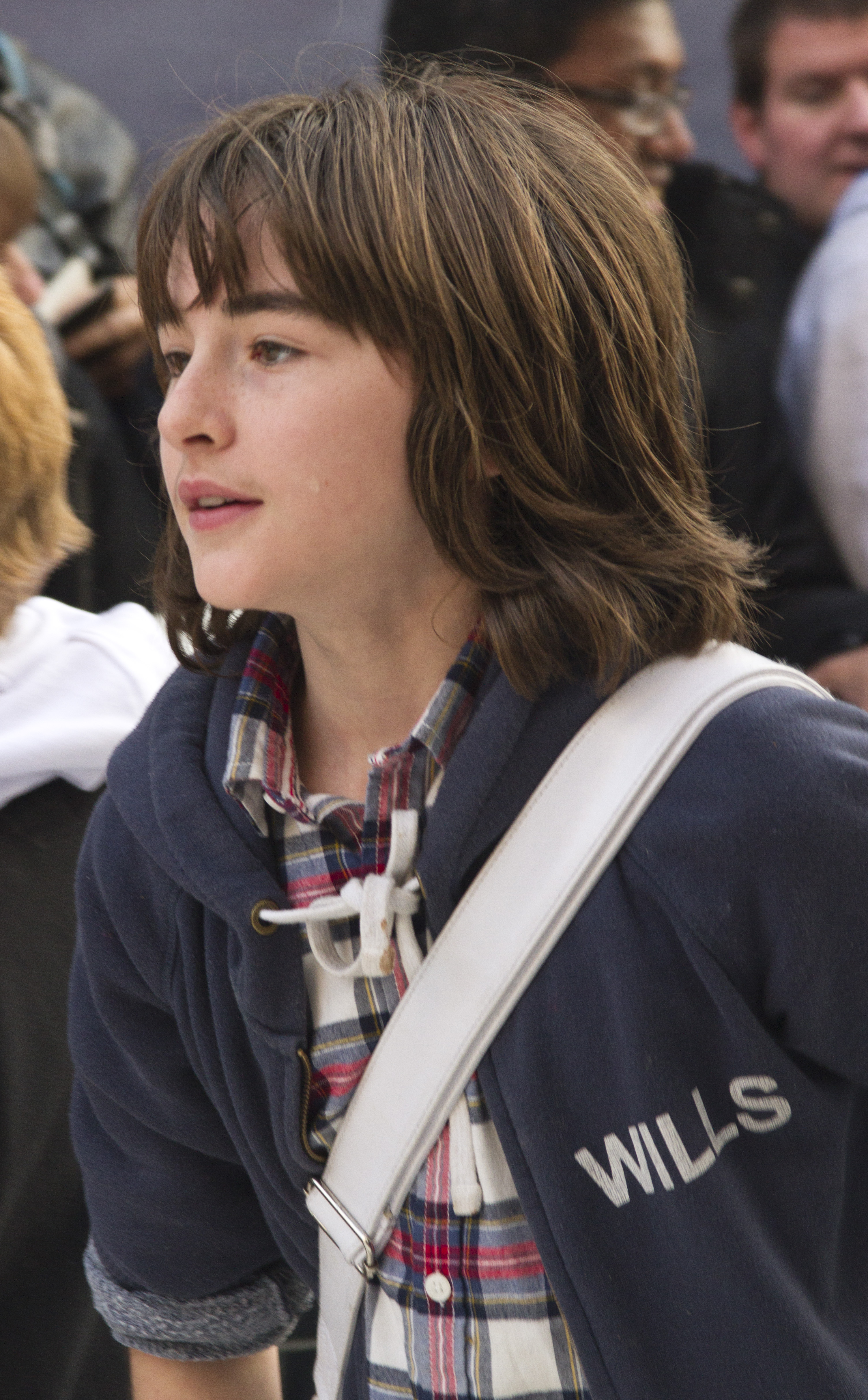 English actor Isaac Hempstead-Wright at the Happy Feet 2 European premiere, London, November 2011